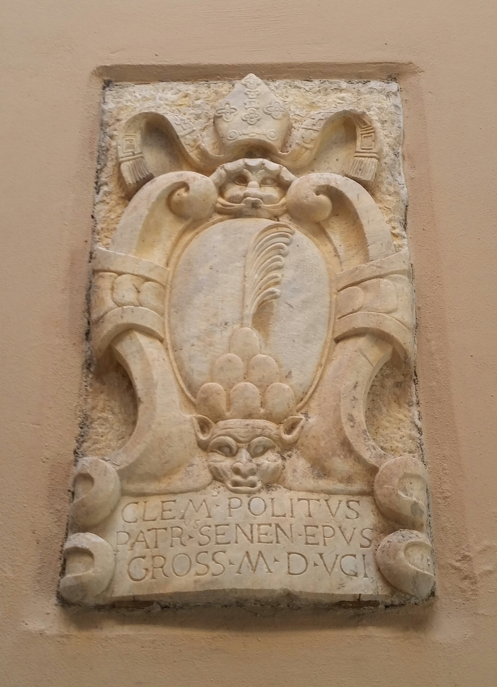 Palazzo Vescovile in Grosseto